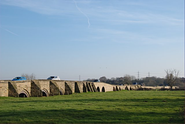 Swarkestone Causeway The mediaeval Swarkestone Causeway was built in the late 13th/ early 14th century to cross the floodplain of the Trent. It has been reinforced and rebuilt in 18th and 19th centuries and still carries the busy A514 Derby to Melbourne road.